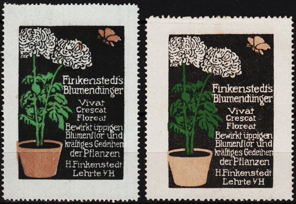 Poster stamp ...